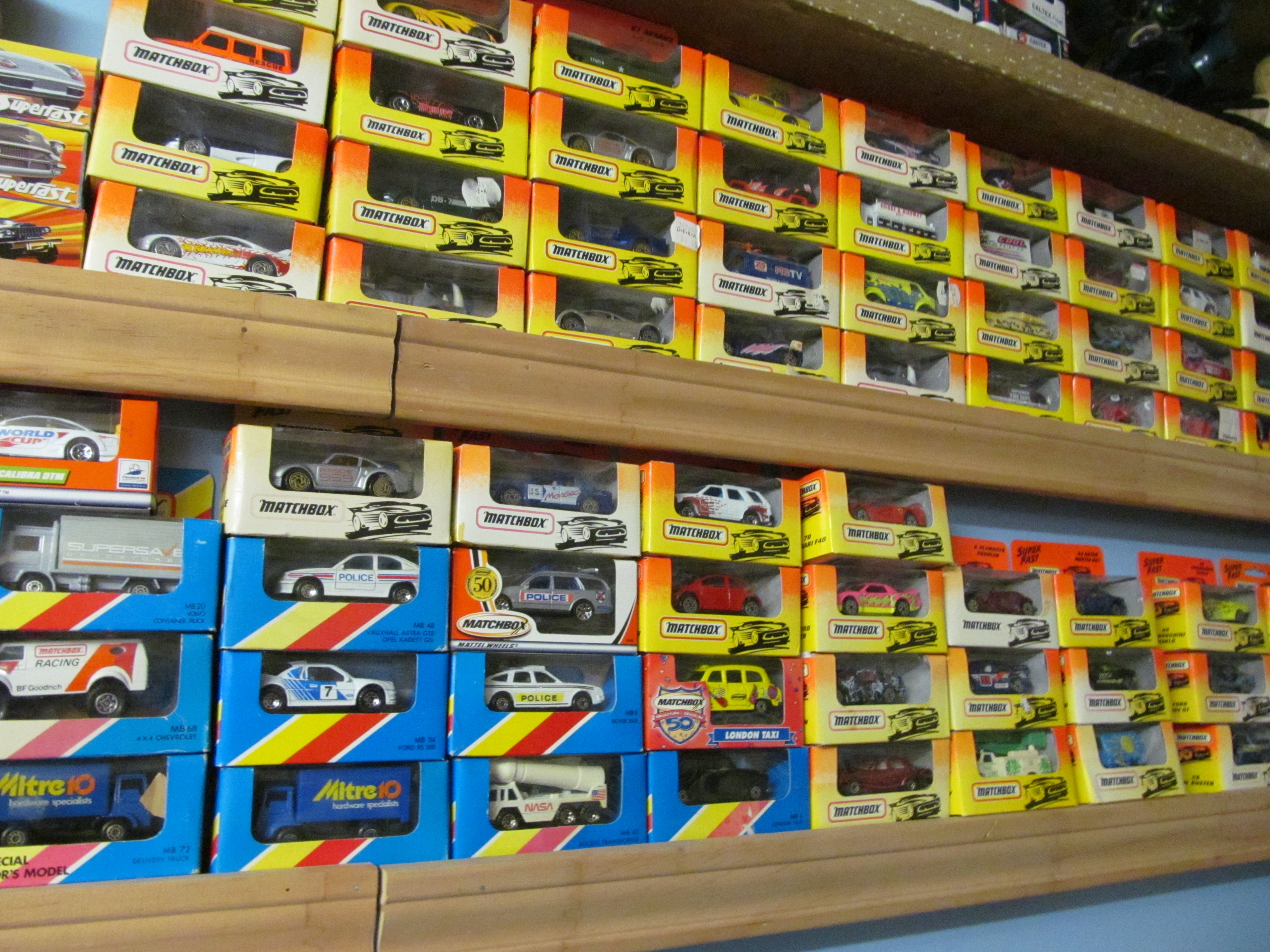 A lot of very tempting models here, though I only ended up with two of them...